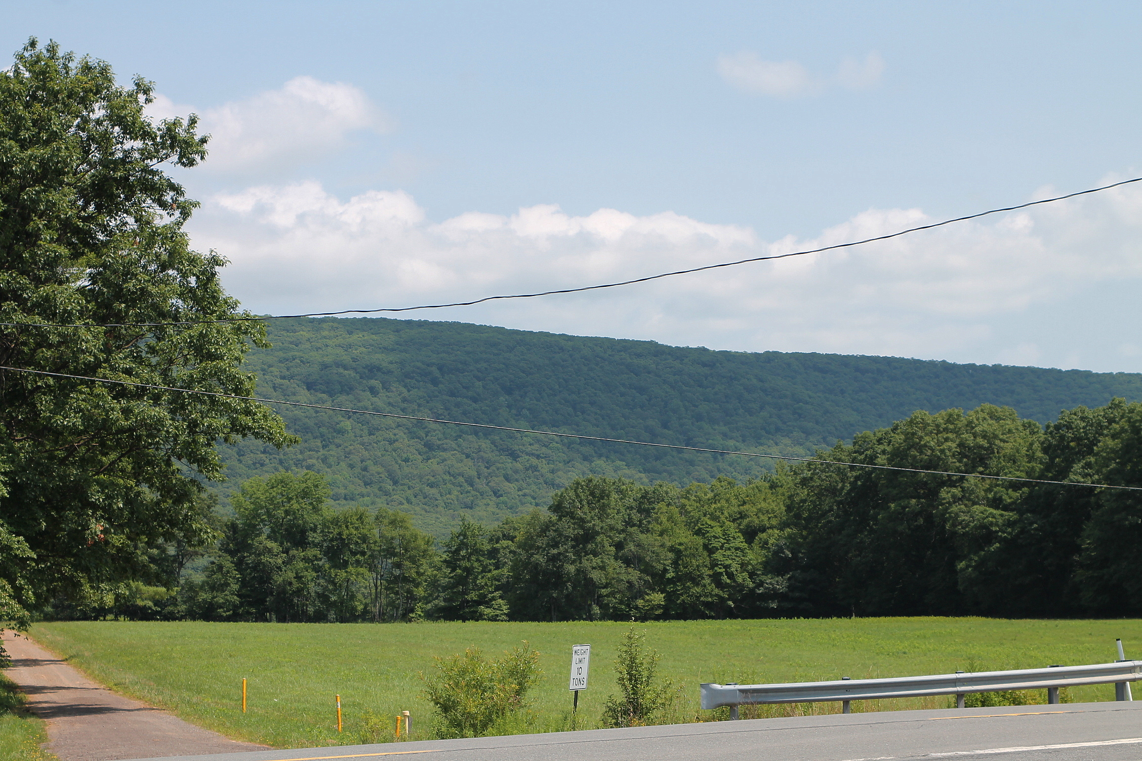 North Mountain (Pennsylvania) from the south on its western side